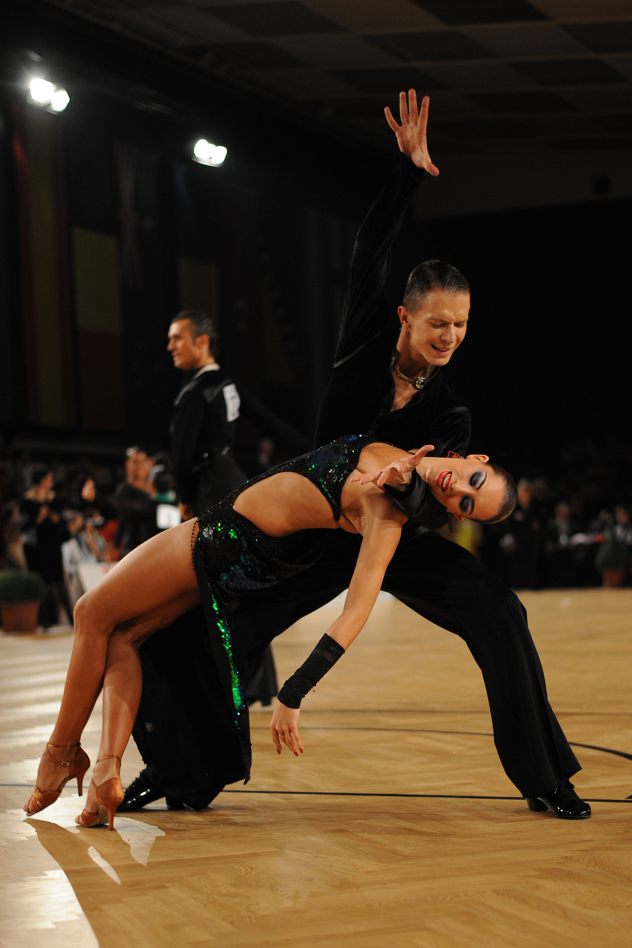 Austrian Open Championships Vienna, 2012 WDSF World Dancesport Championships Latin 16.-18. November 2012 The making of this work was supported by Wikimedia Austria. For other files made with the support of Wikimedia Austria, please see the category Supported by Wikimedia Österreich. Personality rights warning Although this work is freely licensed or in the public domain, the person(s) shown may have rights that legally restrict certain re-uses unless those depicted consent to such uses. In these cases, a model release or other evidence of consent could protect you from infringement claims.